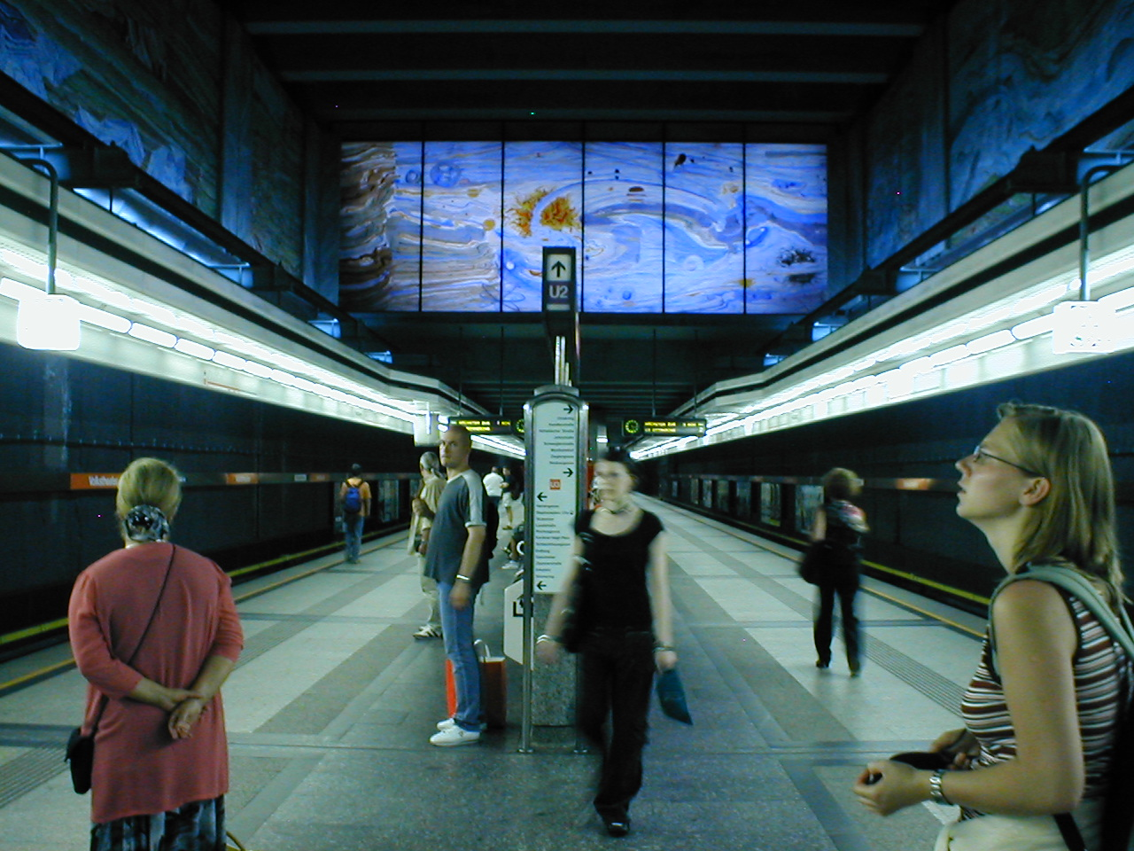 The Vienna U-Bahn station Volkstheater